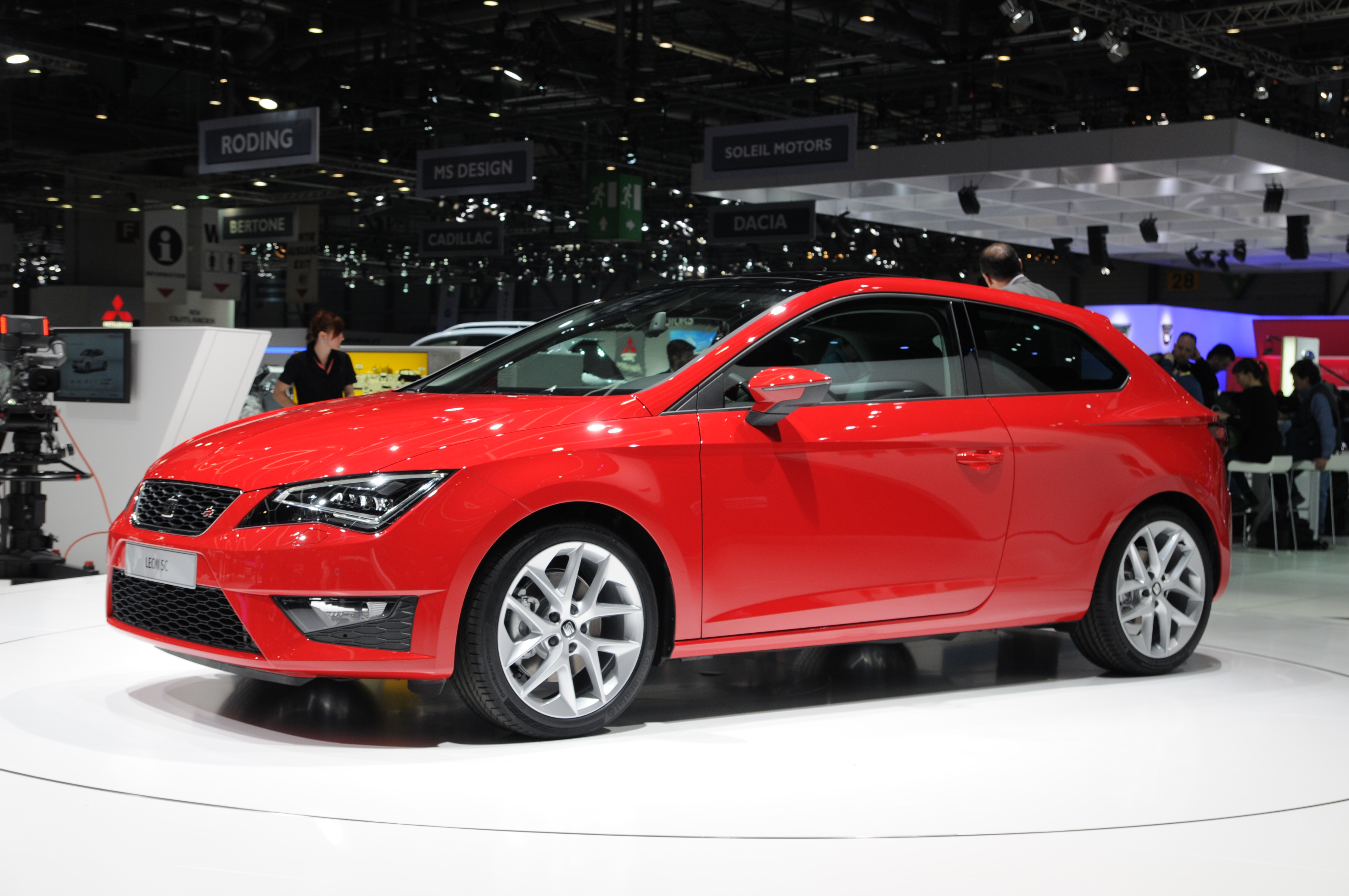 Geneva Motor Show 2013 (photos taken on the first press day)